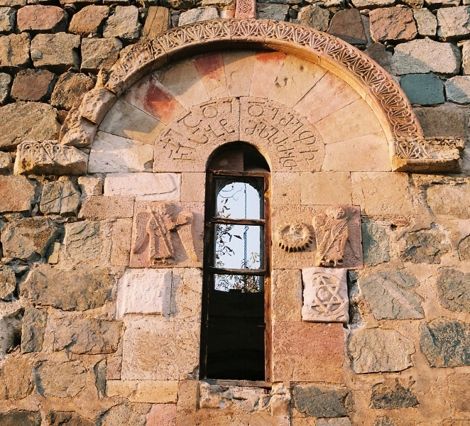 Doliskana. Reliefs from the south wall